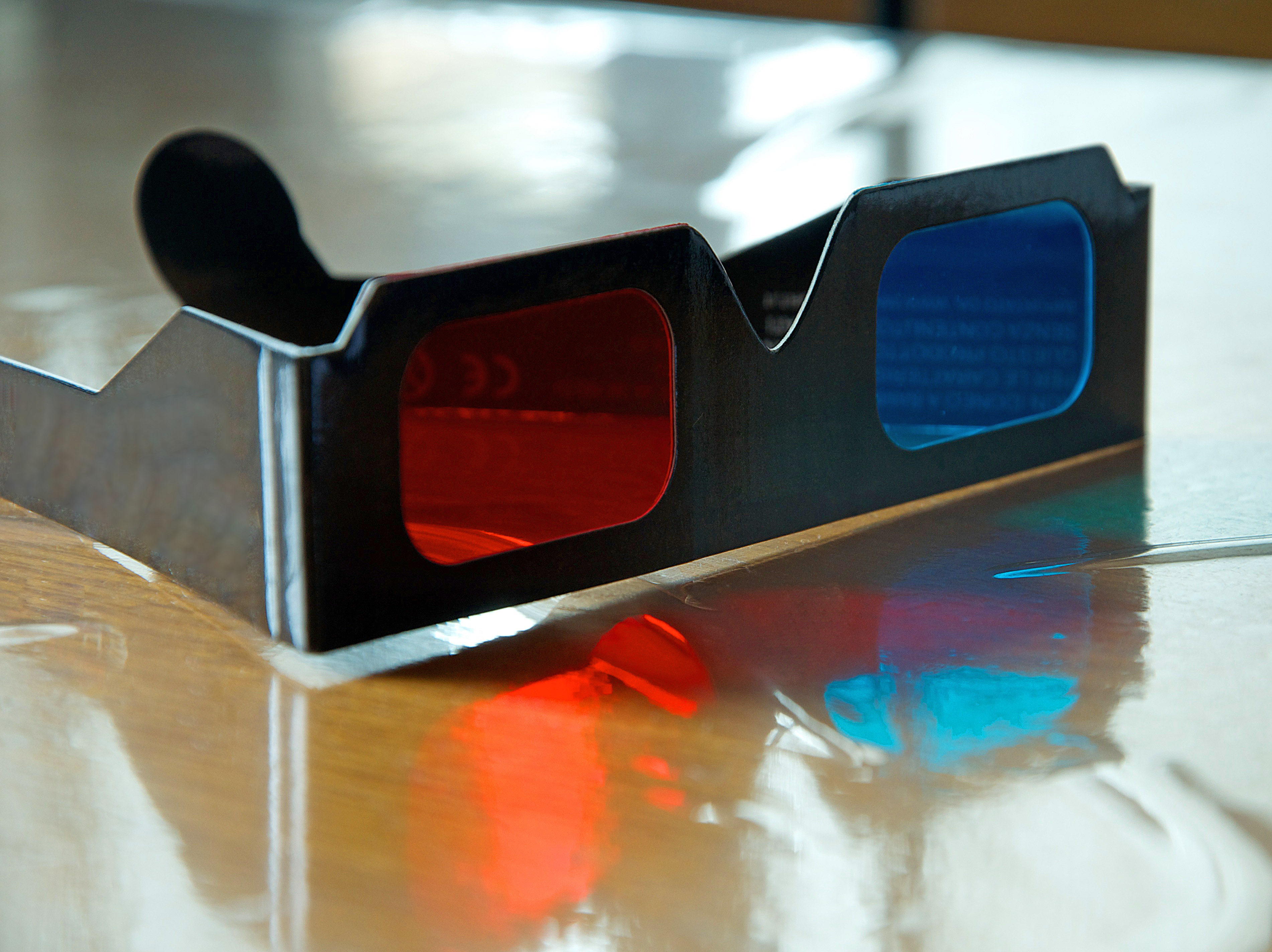 Stereoscopy 3d Anachrome optical diopter glasses